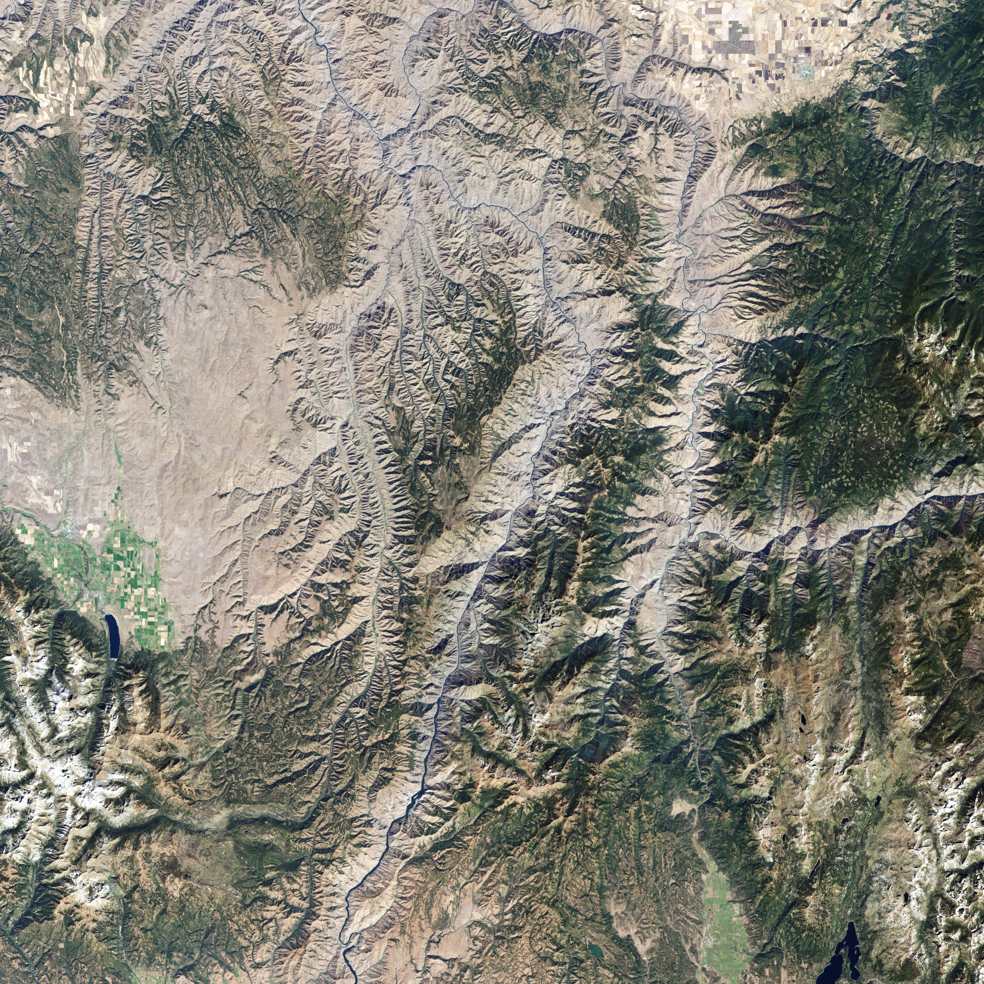 Satellite picture of Hells Canyon National Recreation Area— in eastern Idaho and western Oregon. The image shows the northern part of the canyon, where the Imnaha River joins the Snake River. (Both rivers flow north.) The landscape is a mixture of green vegetation in gullies and along creeks and pale beige-gray, where the grasslands that dominate Hells Canyon have likely gone dormant in the heat and dryness of late summer. In places, the canyon walls are bare cliffs. This natural-color image of Hells Canyon was captured by NASA’s Landsat-7 satellite on September 19, 2002.